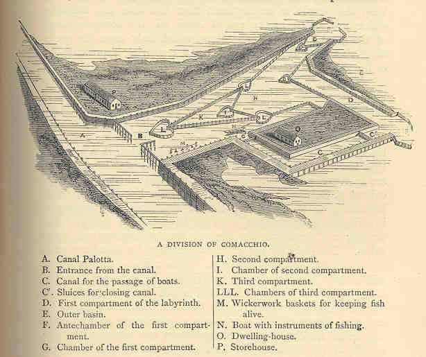 Division of Comacchio Subject: Fish-culture Geographic Subject: Italy--Comacchio Tag: Aquaculture